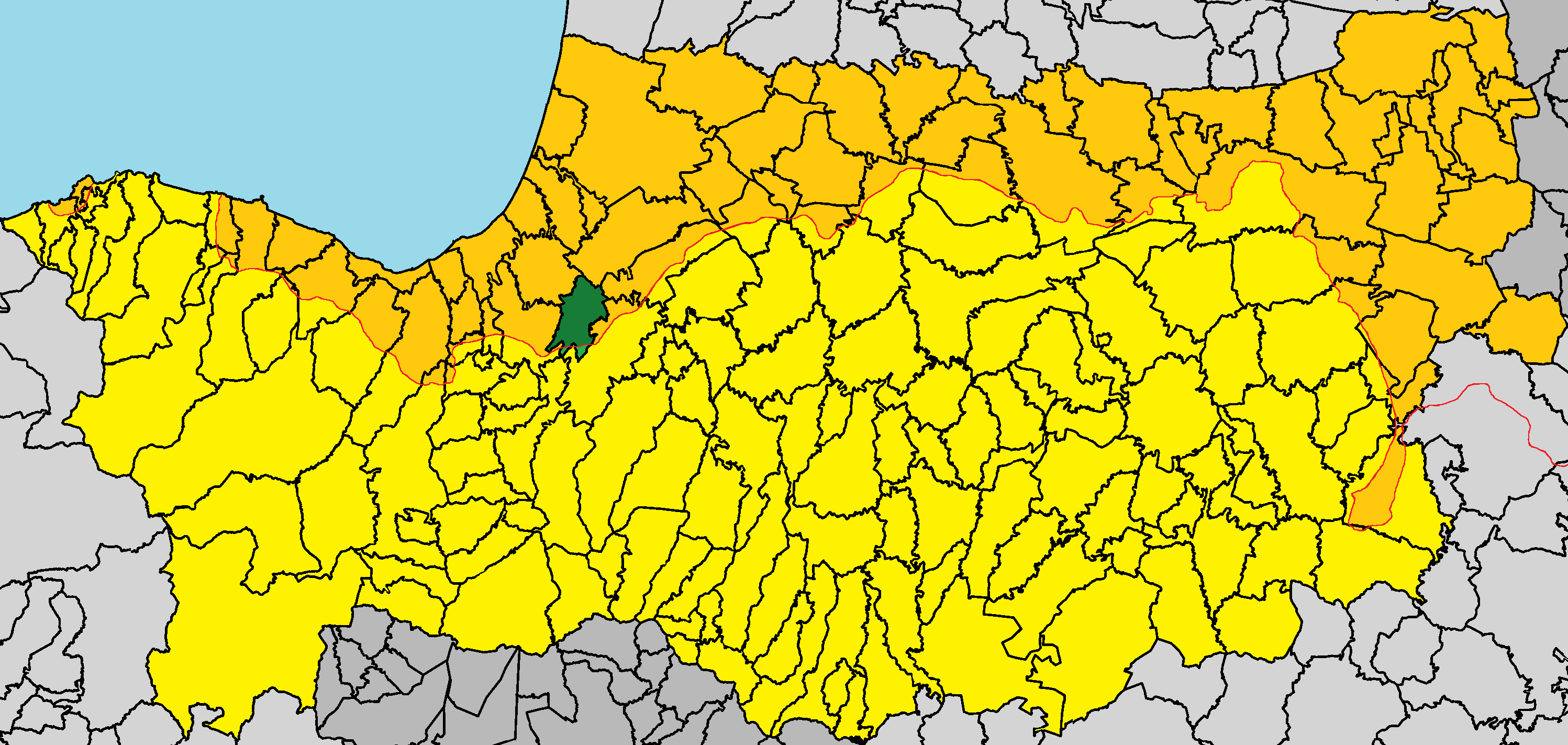 Angolemi in Nicosia District (de jure).